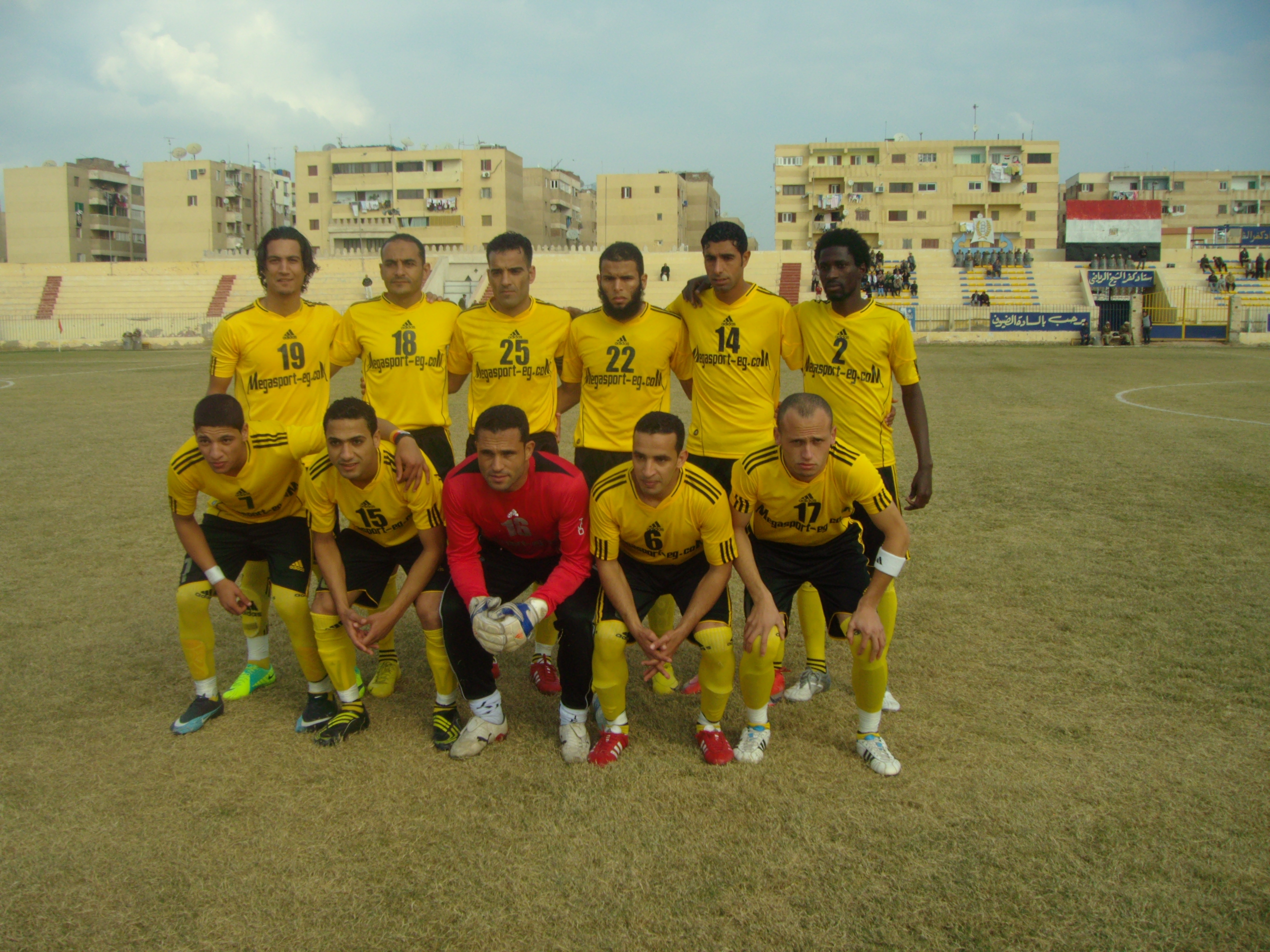 FC Belkas ,a photo taken on 05-01-2012 in the stadium of kafr elsheikh